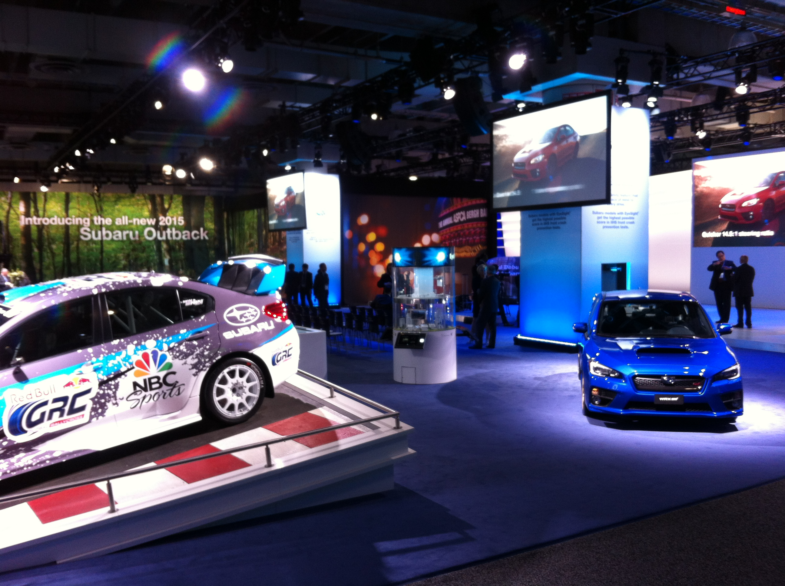 New York Auto Show